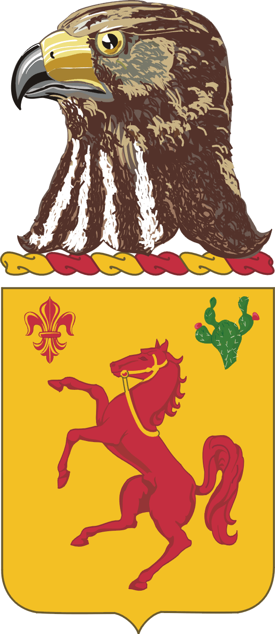 From the US Army TIOH